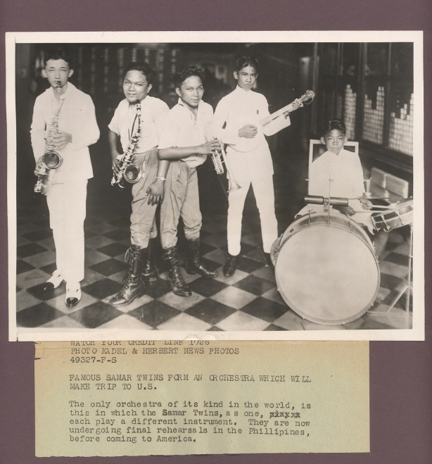 The "Samar Twins" were conjoined twins born on the Philippine island of Samar in 1908. Like earlier "Siamese Twins" Chang and Eng Bunker, they came to the USA at a young age and were a side show attraction at Coney Island. They returned to the Philippines and married the Matos sisters when they were 21 and then toured America again. The Samar Twins died in New York City in 1936 when one of the twins contracted rheumatic fever. Original Caption: WATCH YOUR CREDIT LINE 1926 PHOTO KADEL & HERBERT NEWS PHOTOS 49327-F-S FAMOUS SAMAR TWINS FORM AN ORCHESTRA WHICH WILL MAKE TRIP TO U.S. The only orchestra of its kind in the world, is this in which the Samar Twins, as one, each play a different instrument. they are now undergoing final rehearsals in the Phillipines, before coming to America.